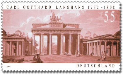 stamp for 275 years of birth of Carl Gotthard Langhans, Architect (1732-1808) Motiv: Brandenburger Tor Ausgabepreis: 55 Cent